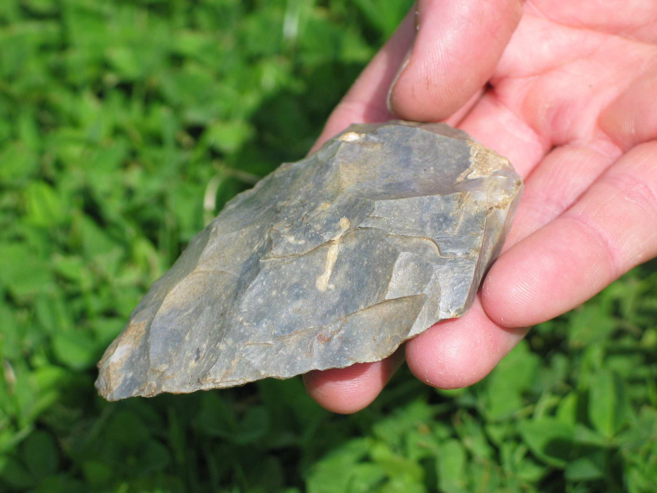 A biface found in Dordogne, France.